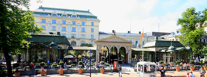 Esplanadikappeli restaurant, Esplanadi, Helsinki. Architects: Kiseleff & Heikel, Axel Hampus Dahlström. Built 1867.